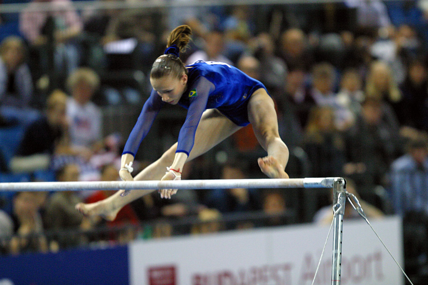 World Artistic Gymnastics Championships in Debrecen (HU) 22/11/2002